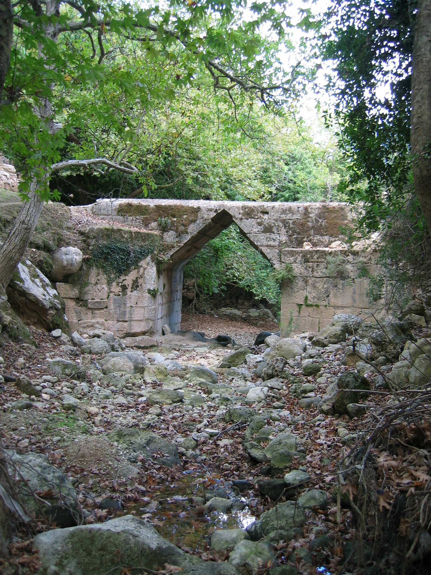 Ancient Greek corbel arch bridge at Eleutherna on the isle of Crete, Greece. View to the south.